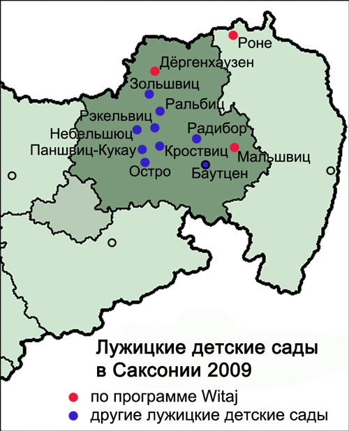 Sorbian kindergartens in Saxony, 2009